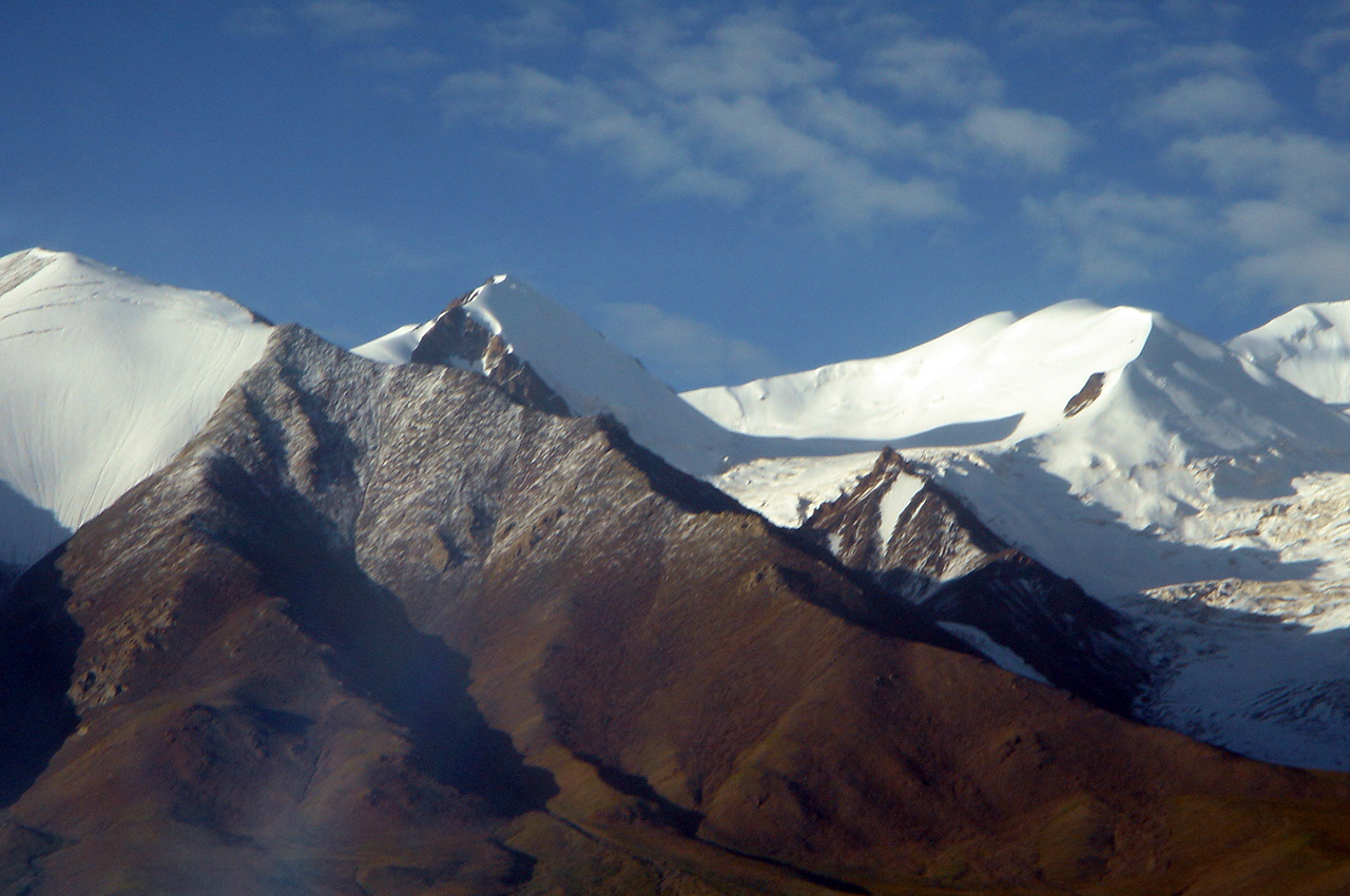 Tanggula Mountains in Qinghai Province, southern China